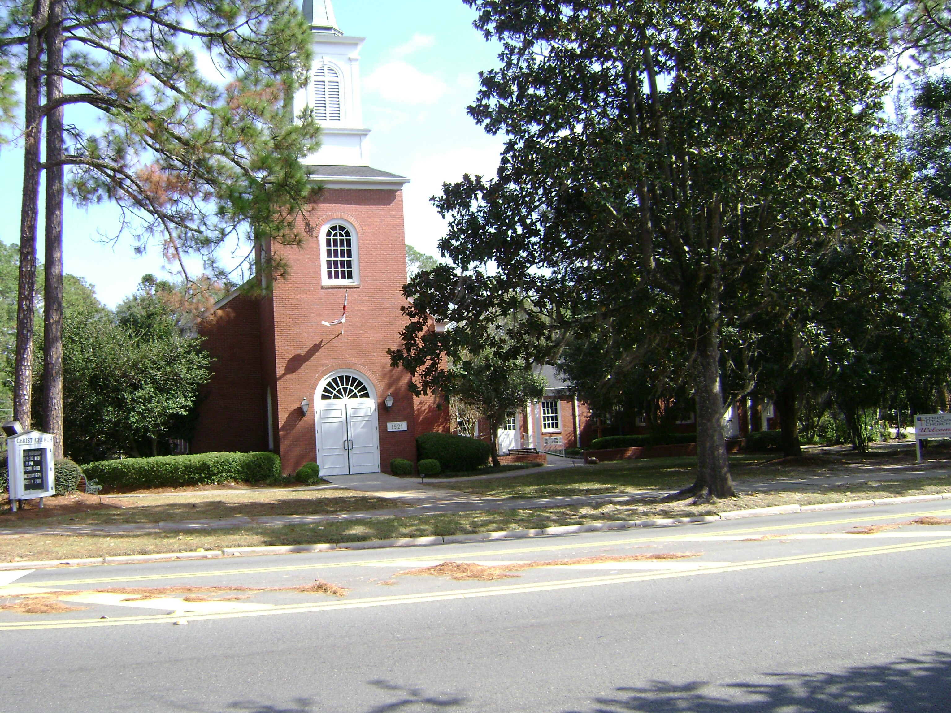 Christ Episcopal Church on North Patterson Street, Valdosta, Lowndes County, Georgia